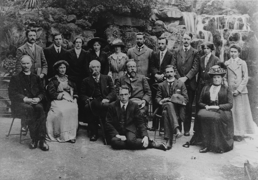 School of irish learning 1913 - copy - notably Maud Joynt is standing in the back row on the far right. (Image: RIA C/24/5/C)